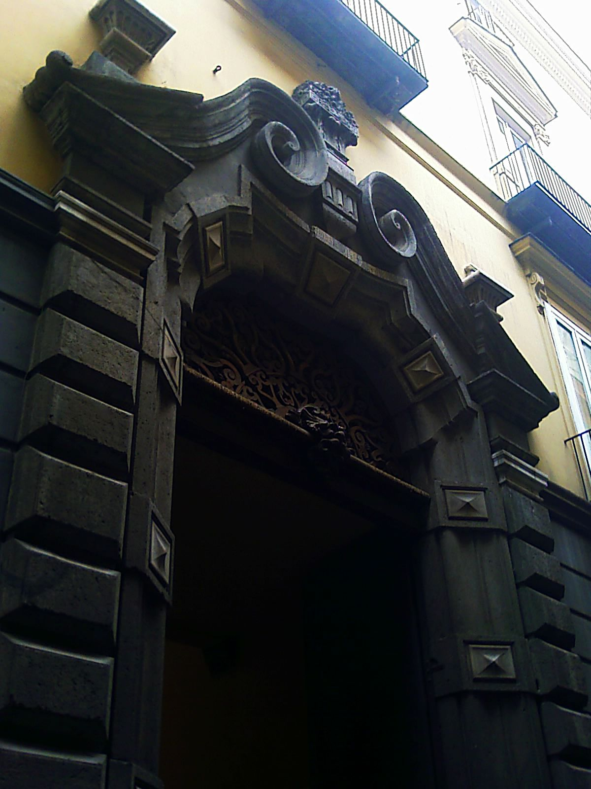 Baroque portal